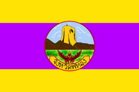 Flag of Phatthalung Province